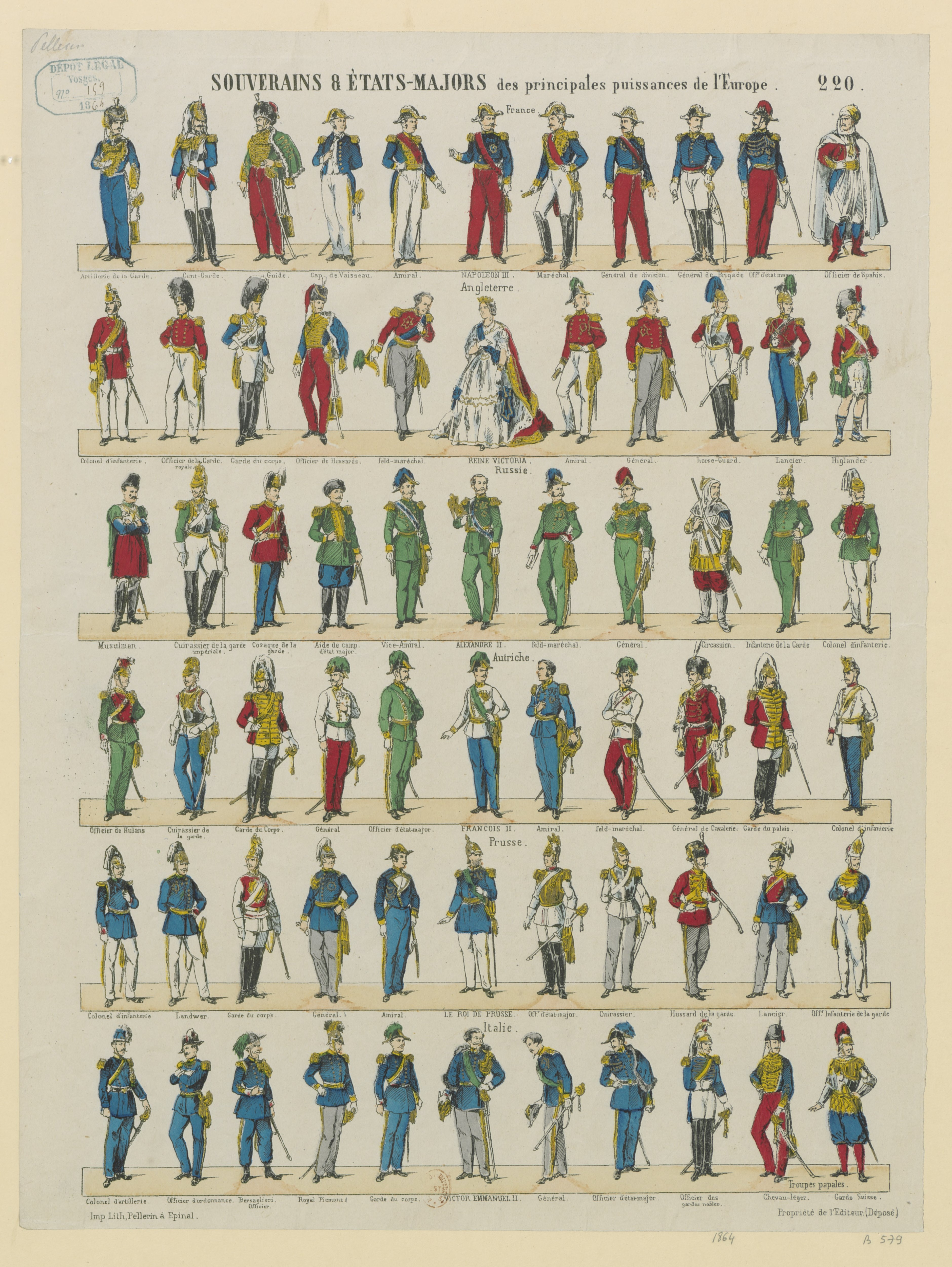 Sovereigns and Staff of the principal Powers of Europe. France - England - Russia - Austria - Prussia - Italy.